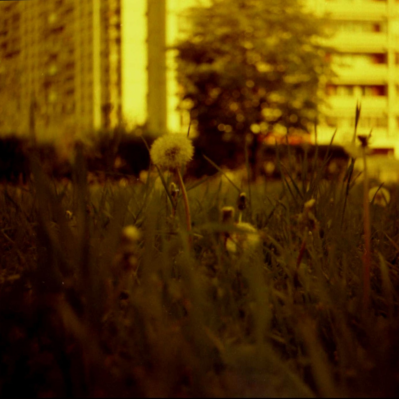 An example of redscale photography. This involves using normal colour film , loaded into the camera backwards so that the emulsion layer is facing the back of the camera. The result is that the light is filtered through the red-dyed anti-halation layer of the film. This results in a strong red tint when the image in underexposed, and reddish green tint if it is well or over-exposed.